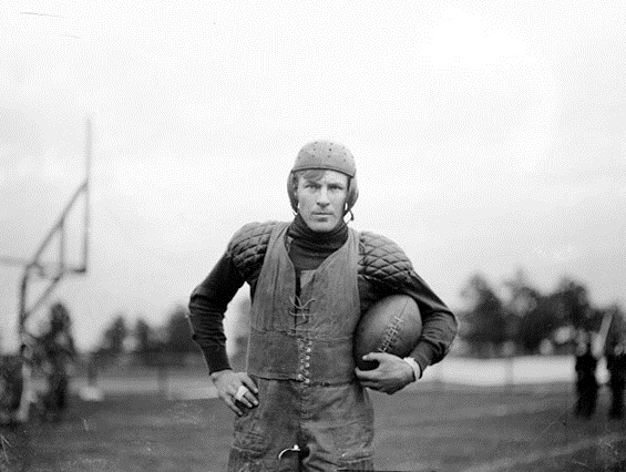 Arthur Rueber, the right half for the 1905 Northwestern Purple football team at Marshall Field.